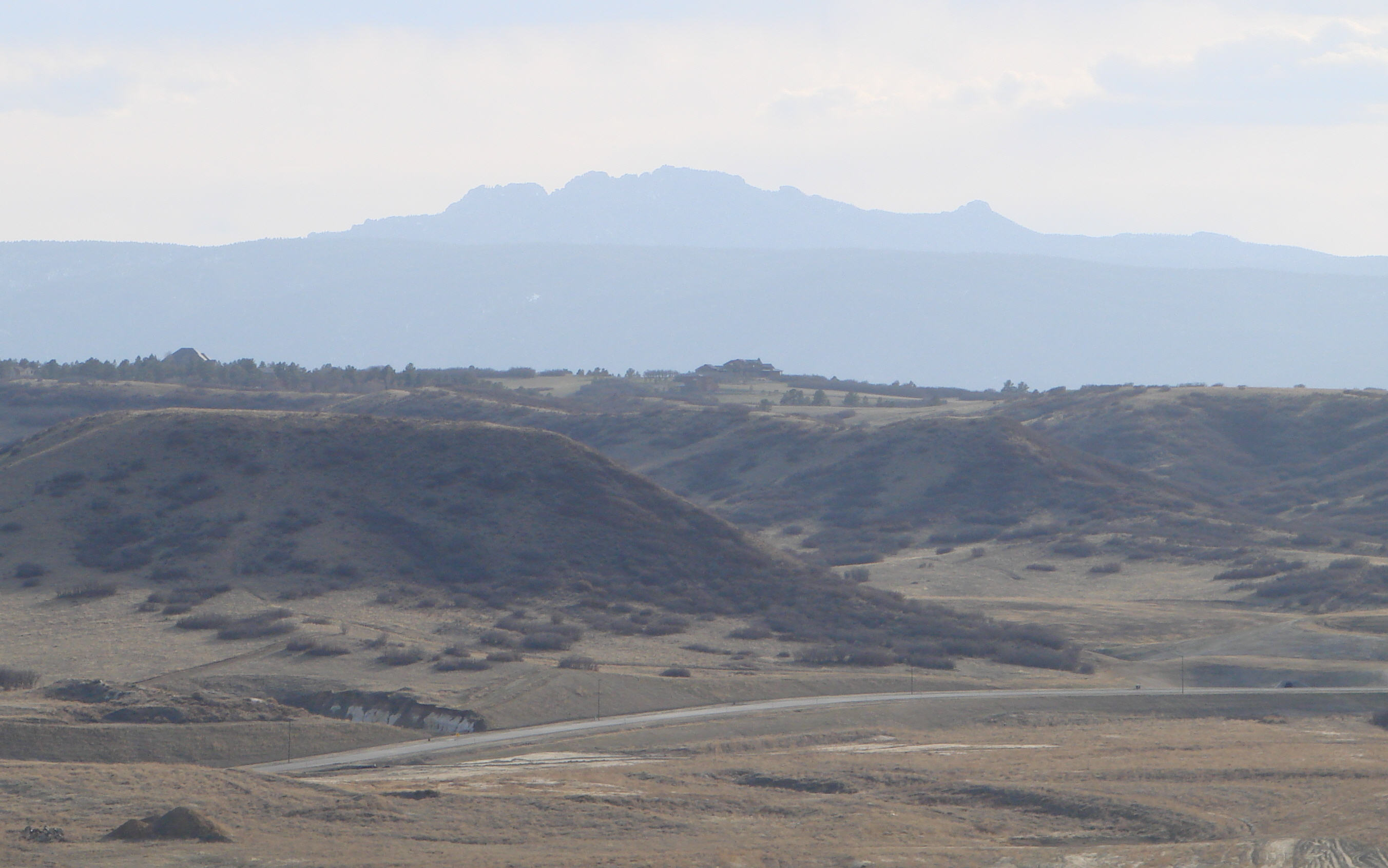 View of Devils Head (Sleeping Indian) from Castle Rock Colorado.